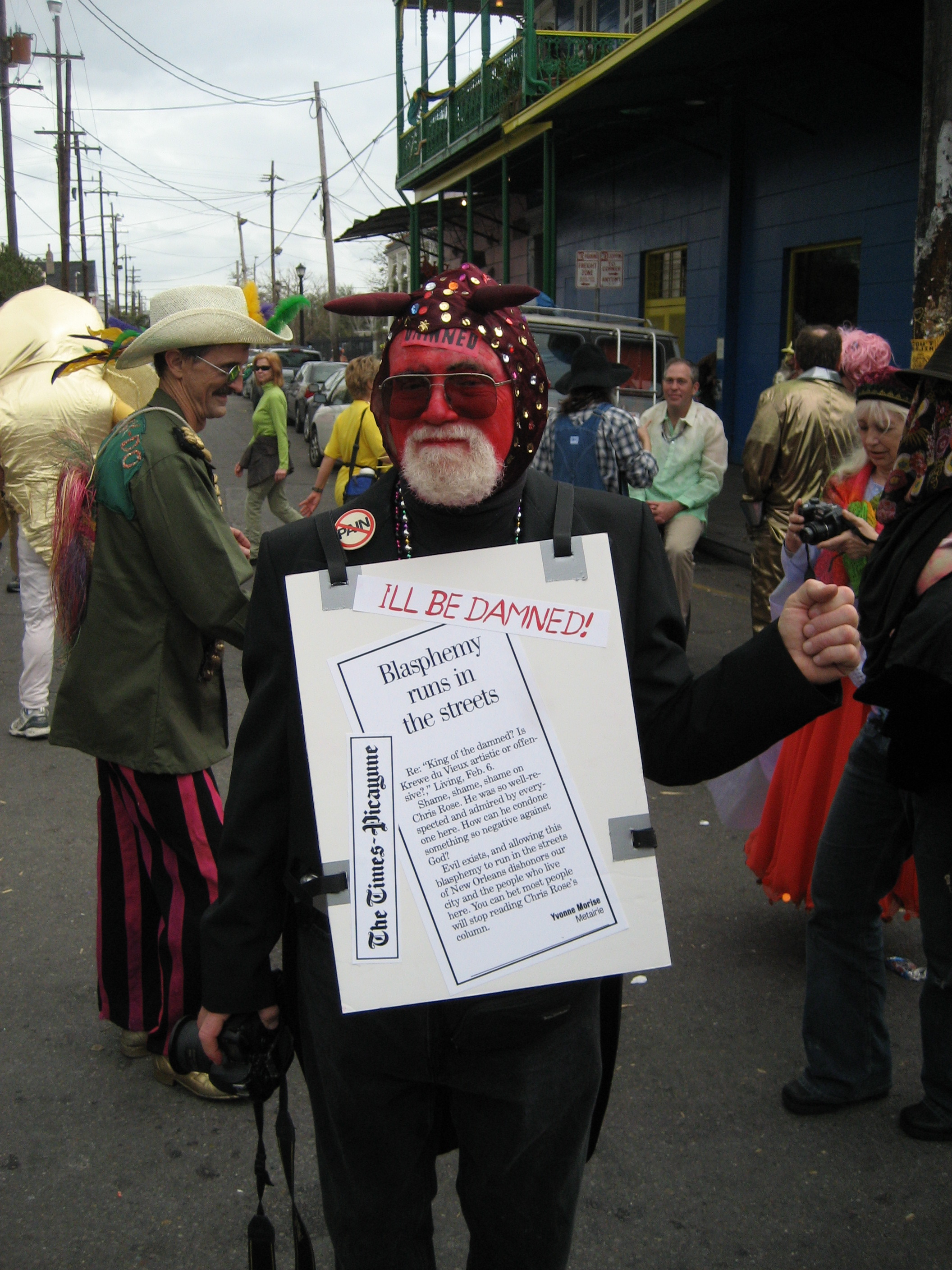 New Orleans Mardi Gras: Costumer on Frenchmen Street; makes reference to protests of alleged "blasphemy" in the Krewe du Vieux parade.